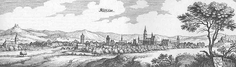 This is a scan of the historical document: Title: Alsfeld - Topographia Hassiae language: german